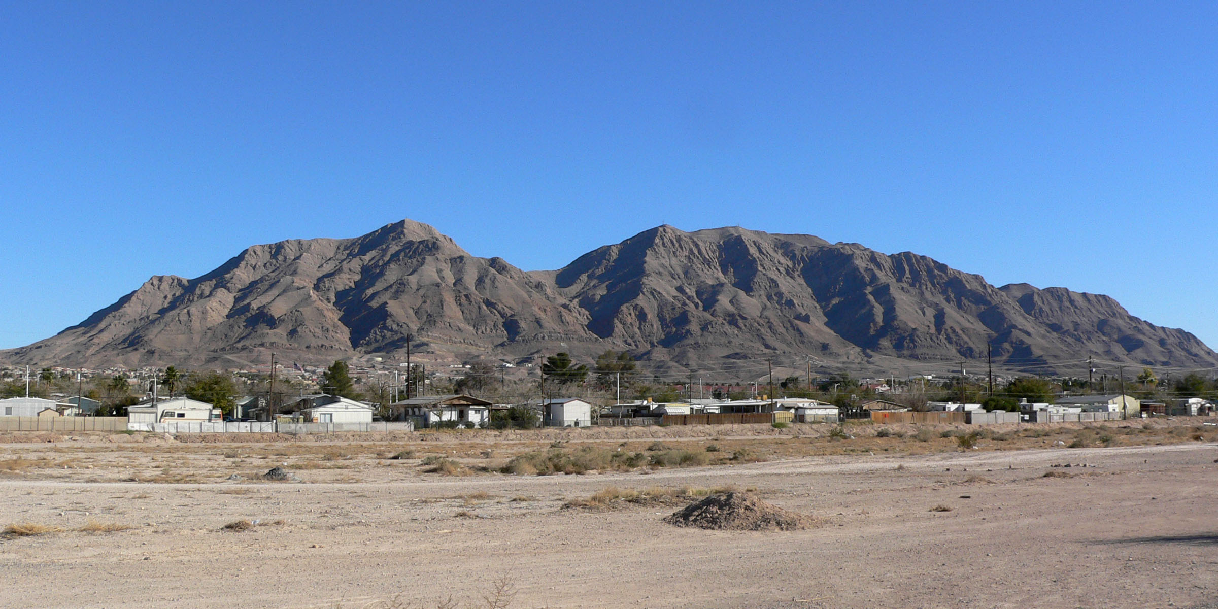 Frenchman Mountain seen from eastern Las Vegas, Nevada